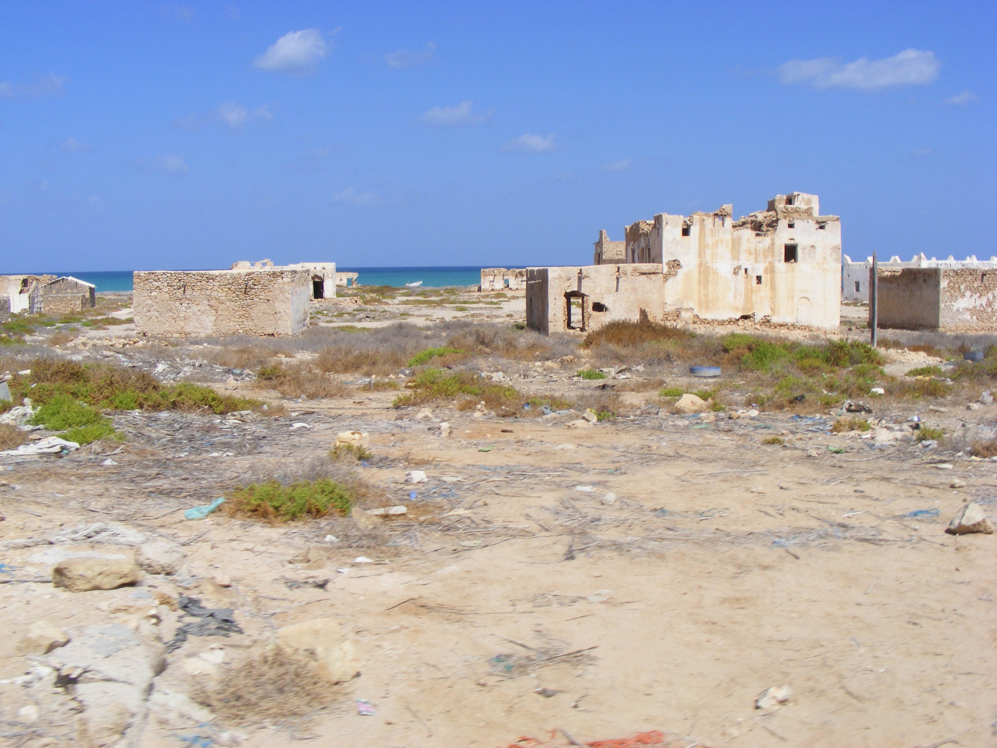 Elayo's old town